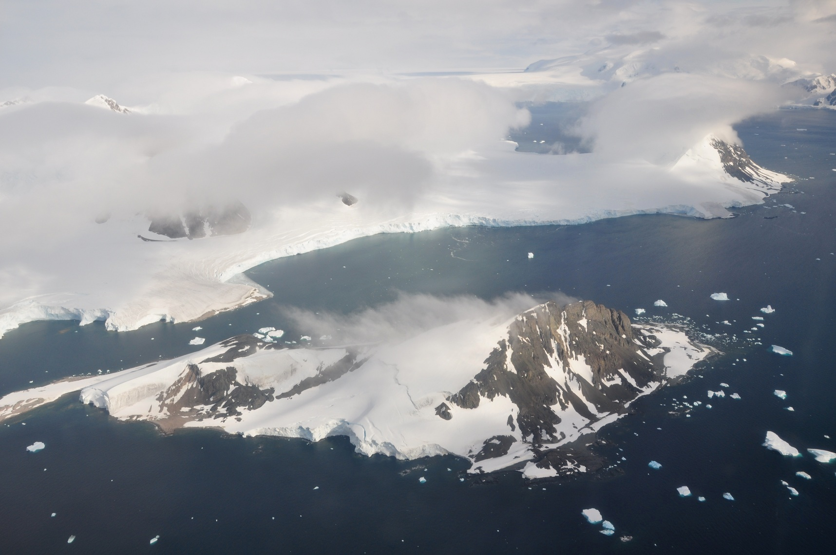 This picture is from the SW Antarctic Peninsula region. It's an aerial view from a position over Laubeuf Fjord, looking to the NW. In the foreground is Webb Island with its summit of 398 m. Behind it is a part of the Wright Peninsula on Adelaide Island's east coast. This coast's high ice cliffs are from the Wormald Ice Piedmont that covers most of the Wright Peninsula's east coast. The cloud-covered mountains on the left are the Stokes Peaks. The lone cloud-covered mountain at the right -at the NE extremity of the Wright Peninsula-is Sighing Peak; behind it is Stonehouse Bay. The maritime channel right of Sighing Peak is called Cole Channel (and is actually a part of Laubeuf Fjord). In the upper right hand corner of the picture is the Mount Bouvier Massif. At the foot of these mountains the Shambles Glacier can just be seen through a hole in the clouds. It is Adelaide Island's largest glacier and is heavily crevassed.